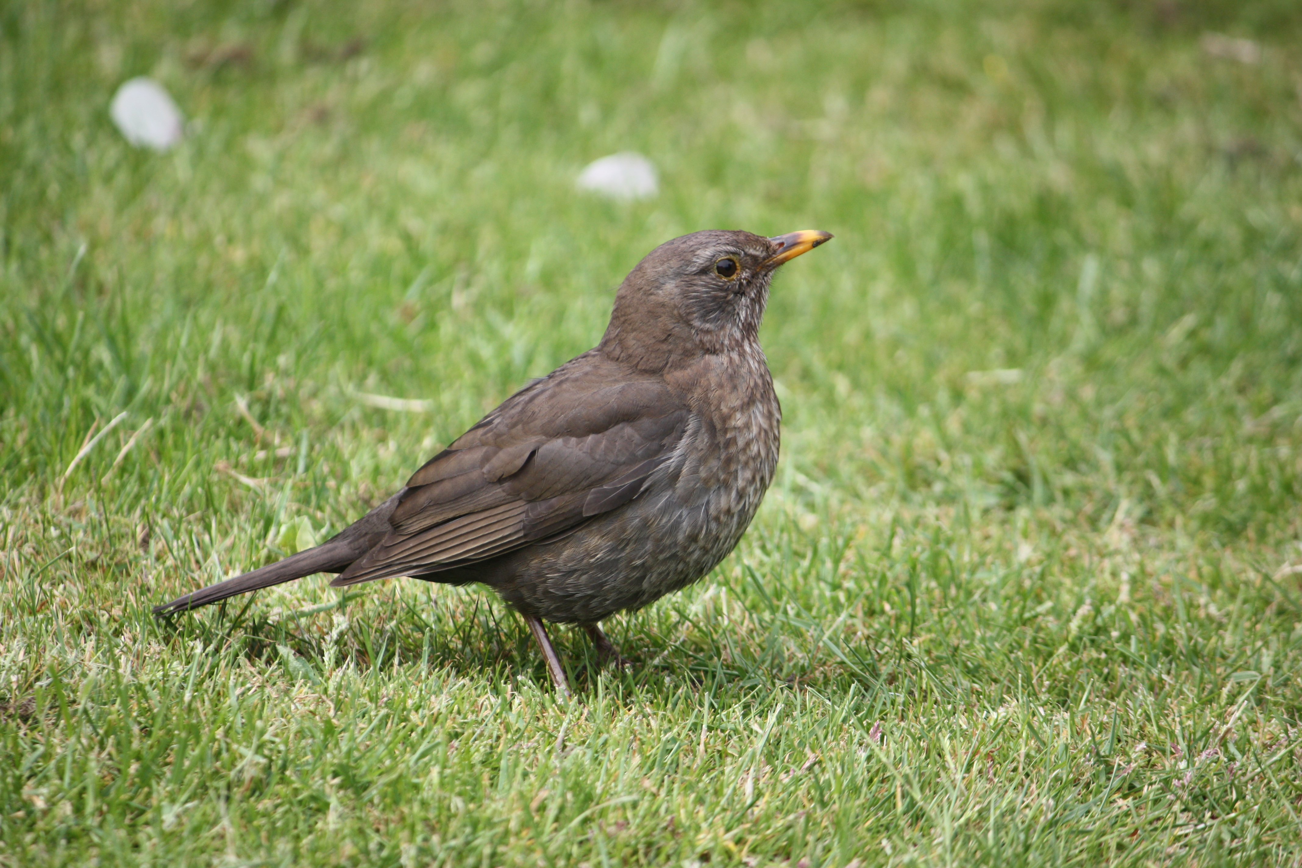 blackbird female hight resolution